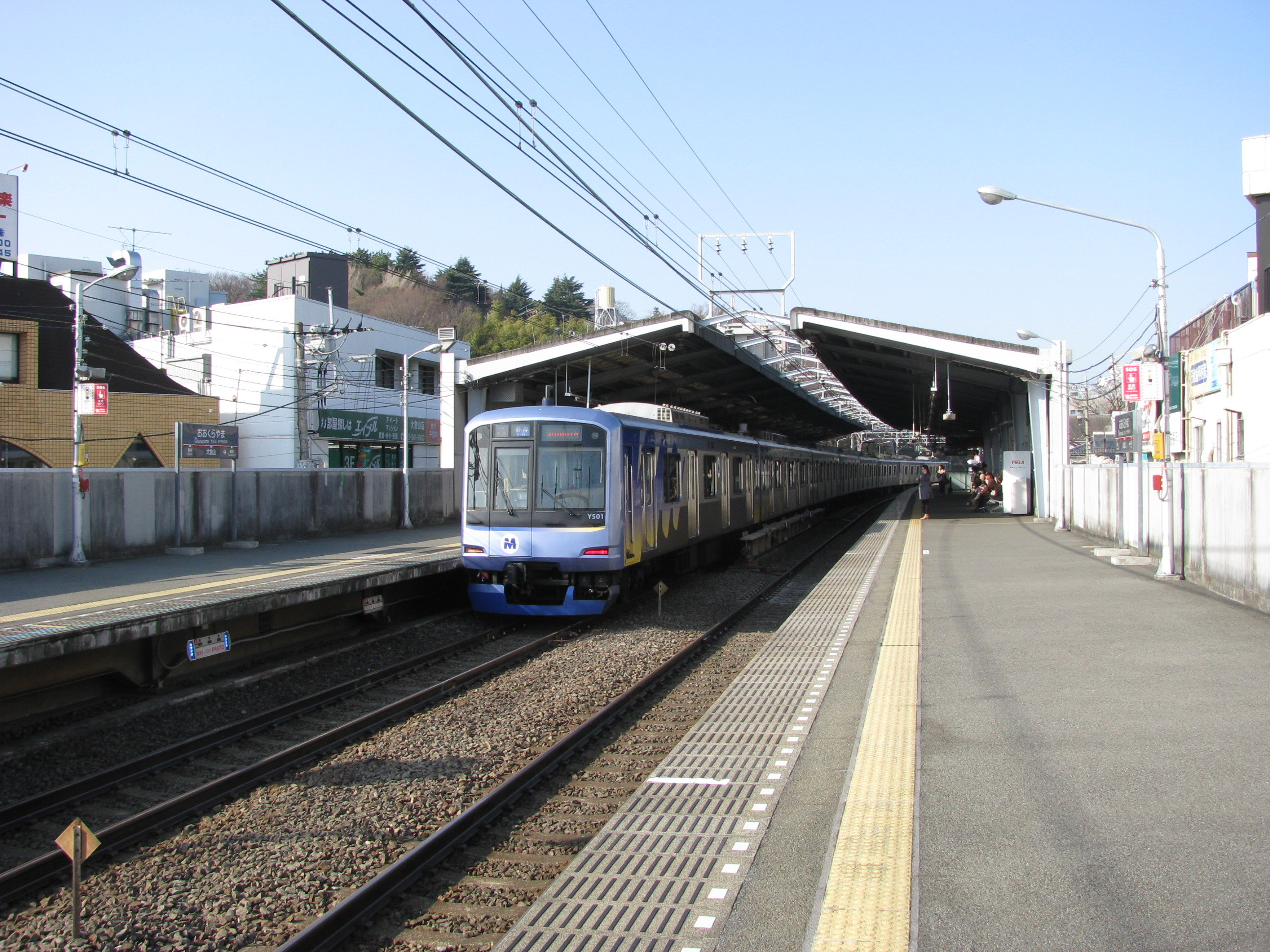 The Ōkurayama Station on Tōkyū Tōyoko Line. This place is Kōhoku-kuYokohama, Kanagawa Prefecture, Japan.